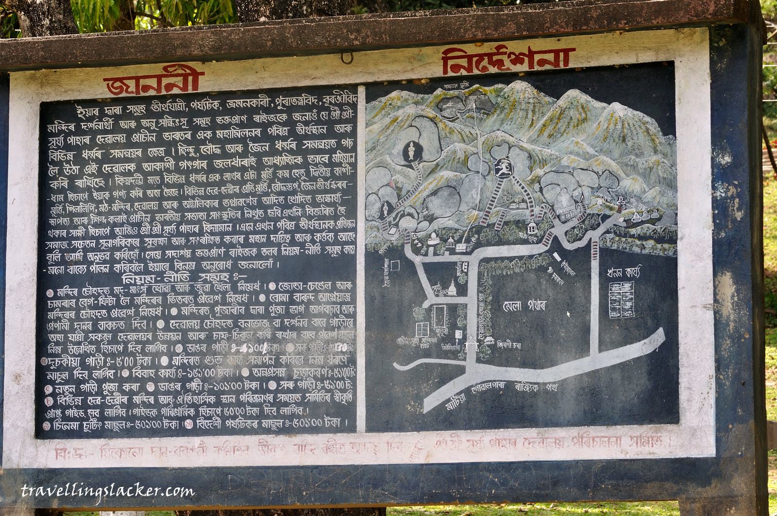 Sri Surya Pahar is an unique place in which three religions- hinduism, jainism and buddhism coexist. Reportedly there are 99,999 rock cut sivlings/stupas.